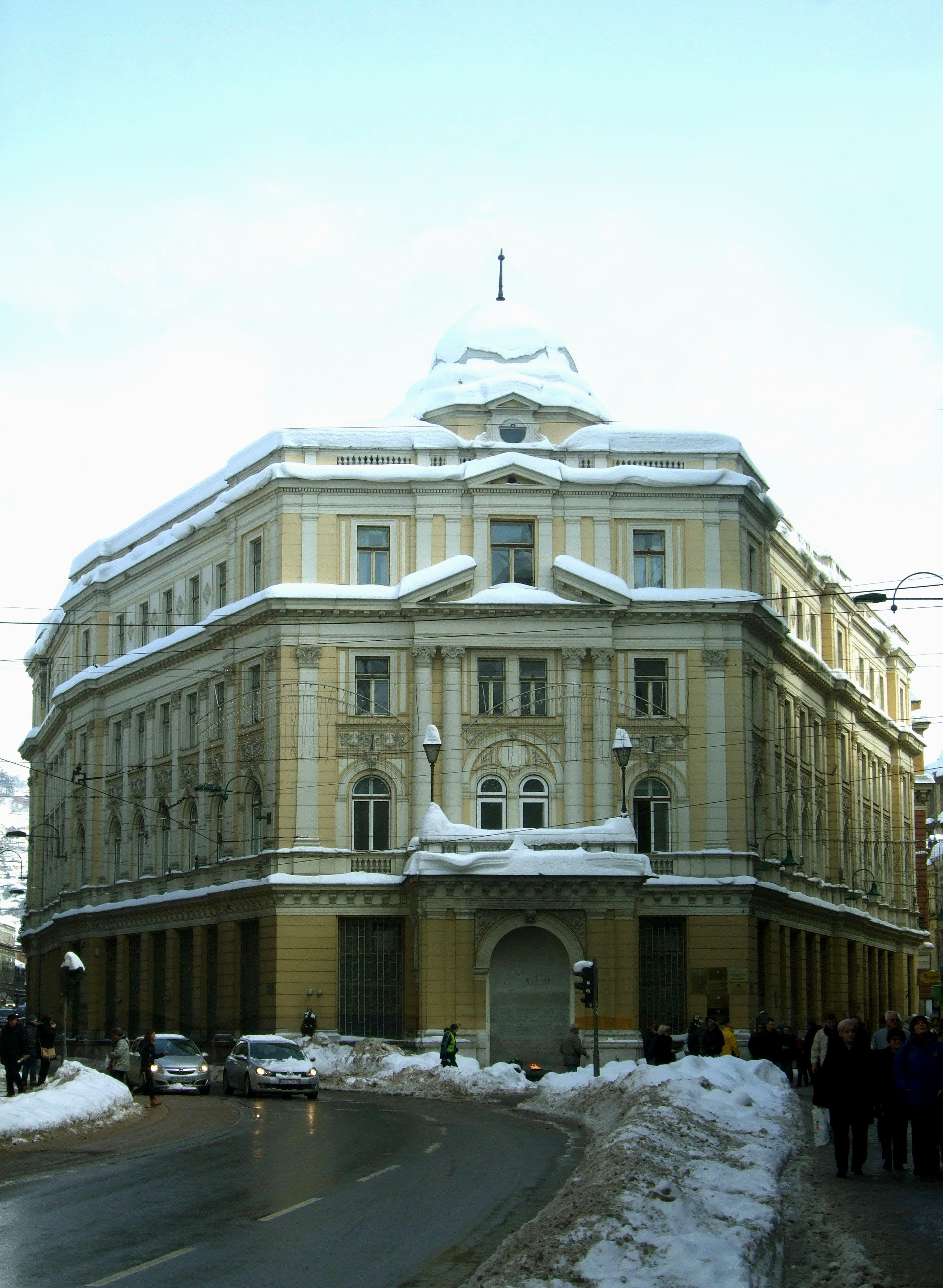 Former Union Hotel in Sarajevo designed by Karel Pařík